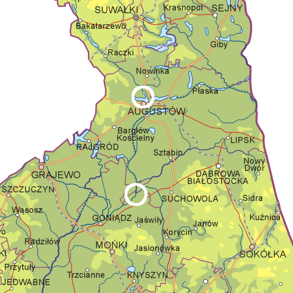 Location of the Teutonic Order's Metenburg castle (Podlaskie Voivodeship, Poland).